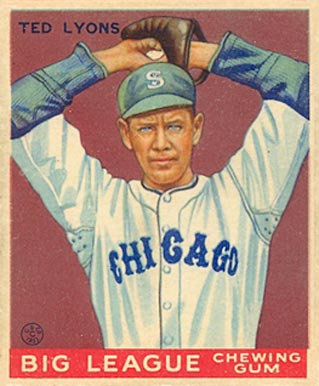 Ted Lyons of the Chicago White Sox Goudey baseball card, #7, PD-not-renewed.